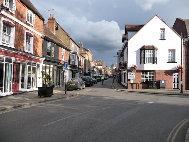 Eton High Street